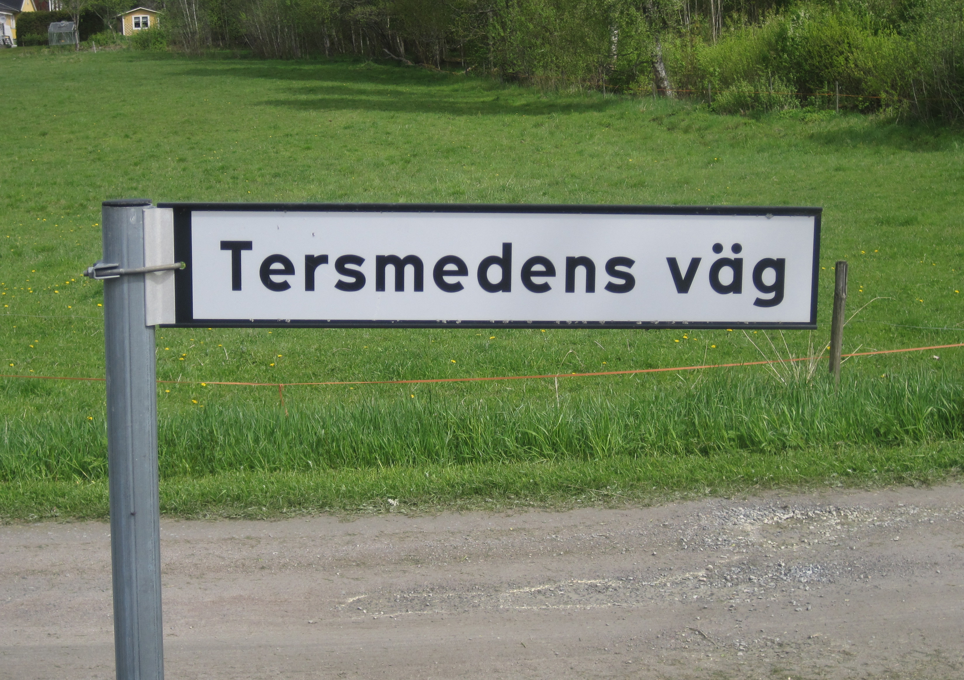 Street sign for "Åforss väg" (Tersmeden's road) in Larsbo, Sweden. The road goes were the Tersmedens' mansion once stood.